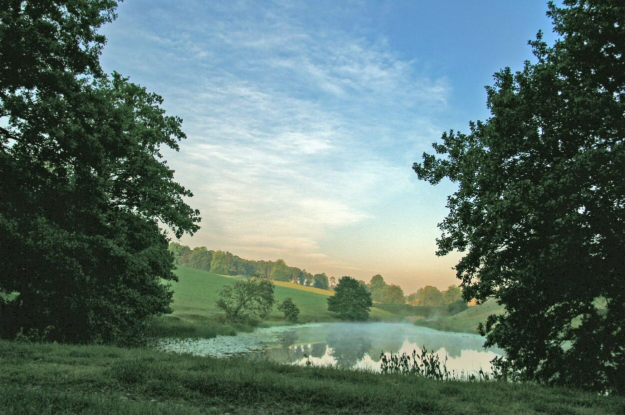 Bretby in Derbyshire. These beautiful ponds there is 5 of them are owned by Richard Perkins a mate of the hrhs' he bought the ponds around twenty years ago and allegedly stopped the locap people from using them they were once a popular picnic spot.